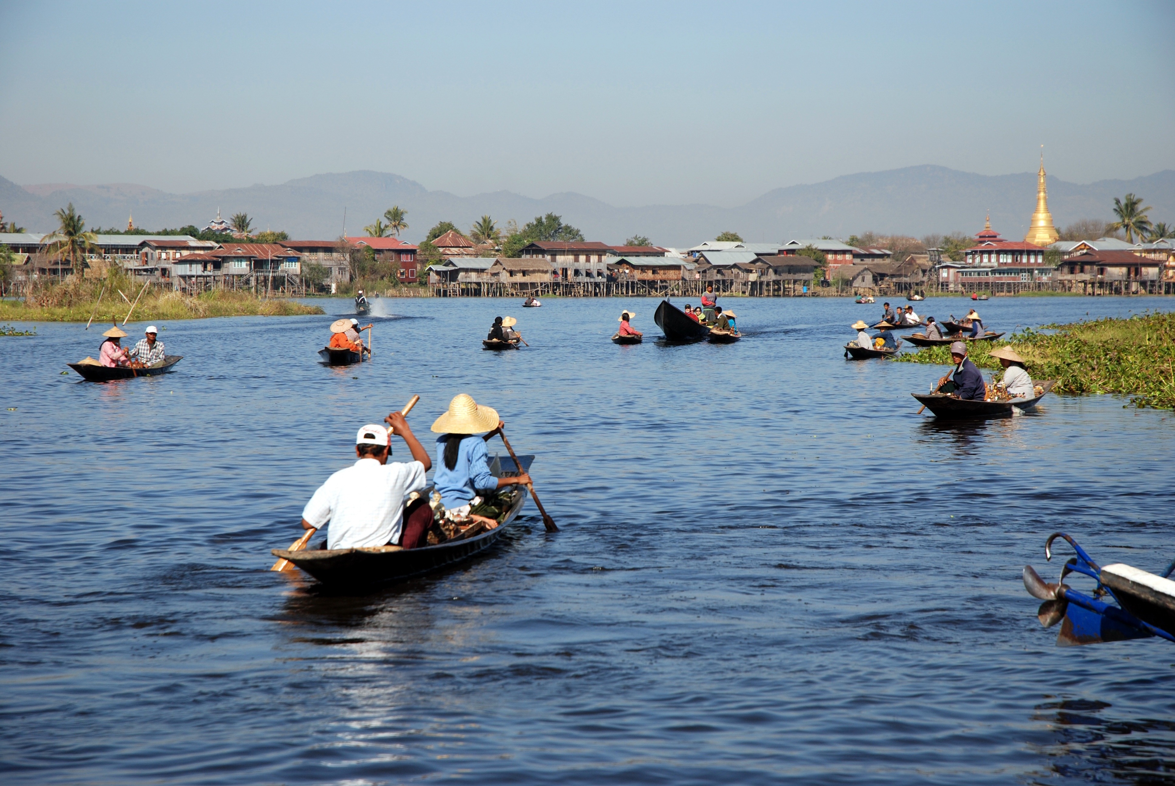 Inle Lake, Burma – living on the water